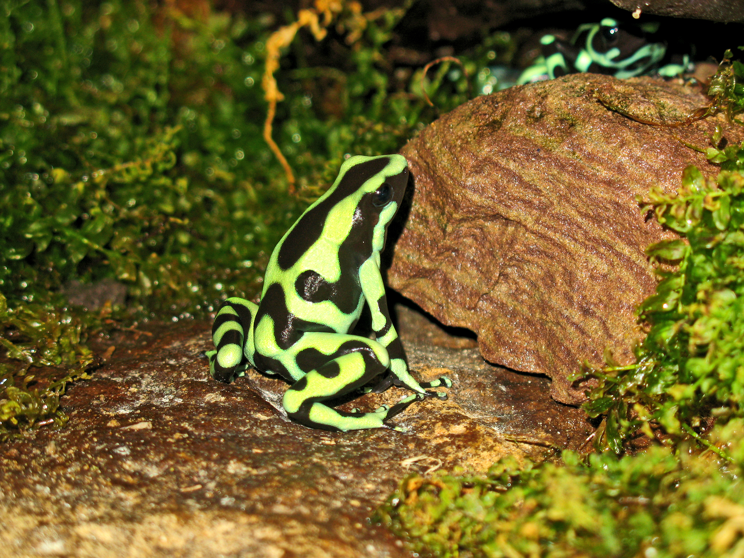 Green and black poison dart frog, green and black poison arrow frog